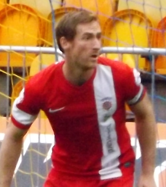 Neil Austin. Image cropped from original at flickr